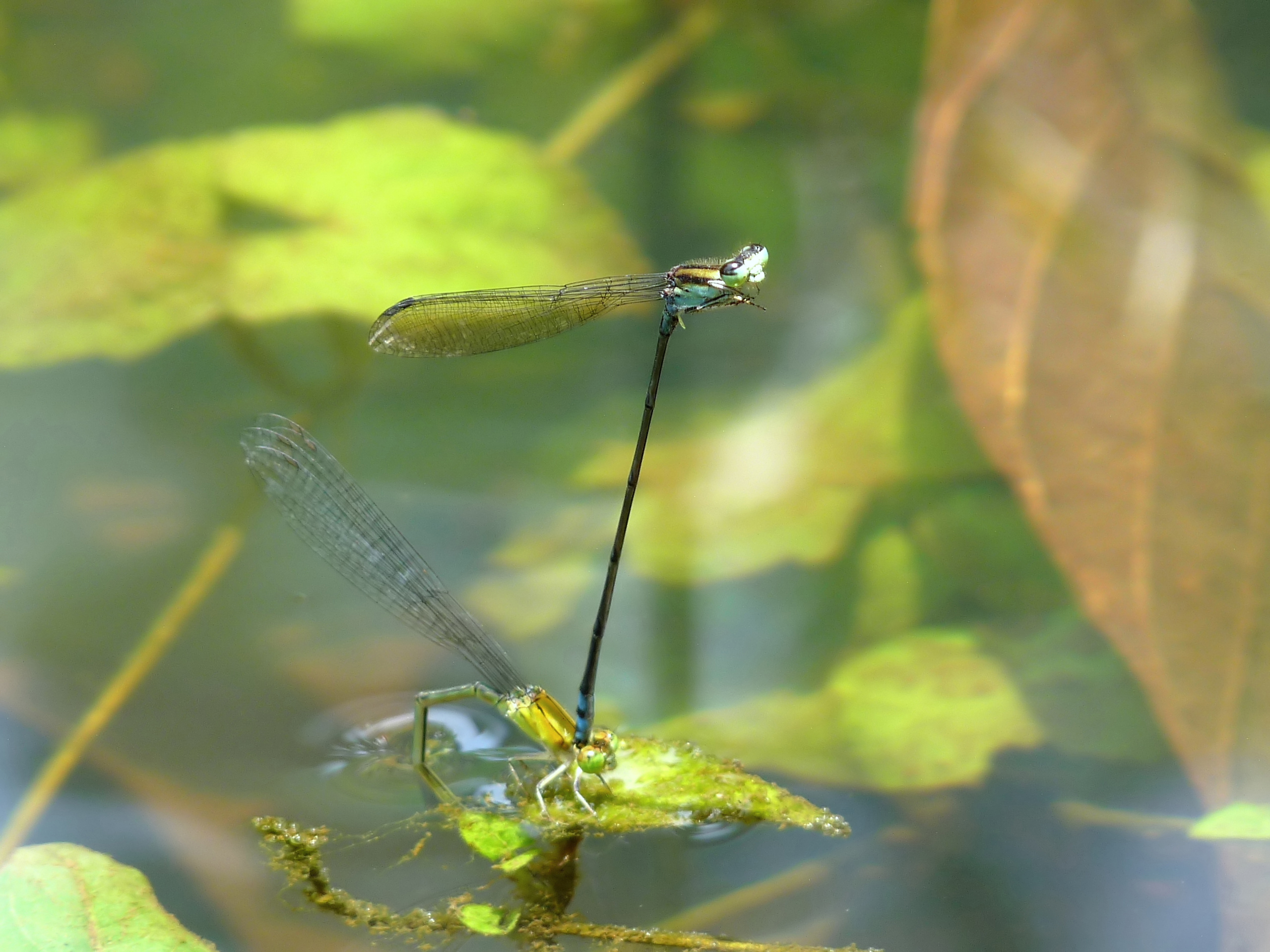 Pseudagrion indicum, Yellow-striped Blue Dart, is a medium sized blue damselfly with black and yellow thoracic stripes. Eyes are black above, greenish on sides and beneath. Thorax is azure blue with broad black medial band. On the sides, it is azure blue with greenish yellow stripe and a narrow black stripe. Rest of the thorax is azure blue with two black spots towards poster end. Eyes of female are emerald green with or without a small black cap. Thorax is grass green above and pale yellowish green on sides. They look much similar to Pseudagrion microcephalum except the green marks.